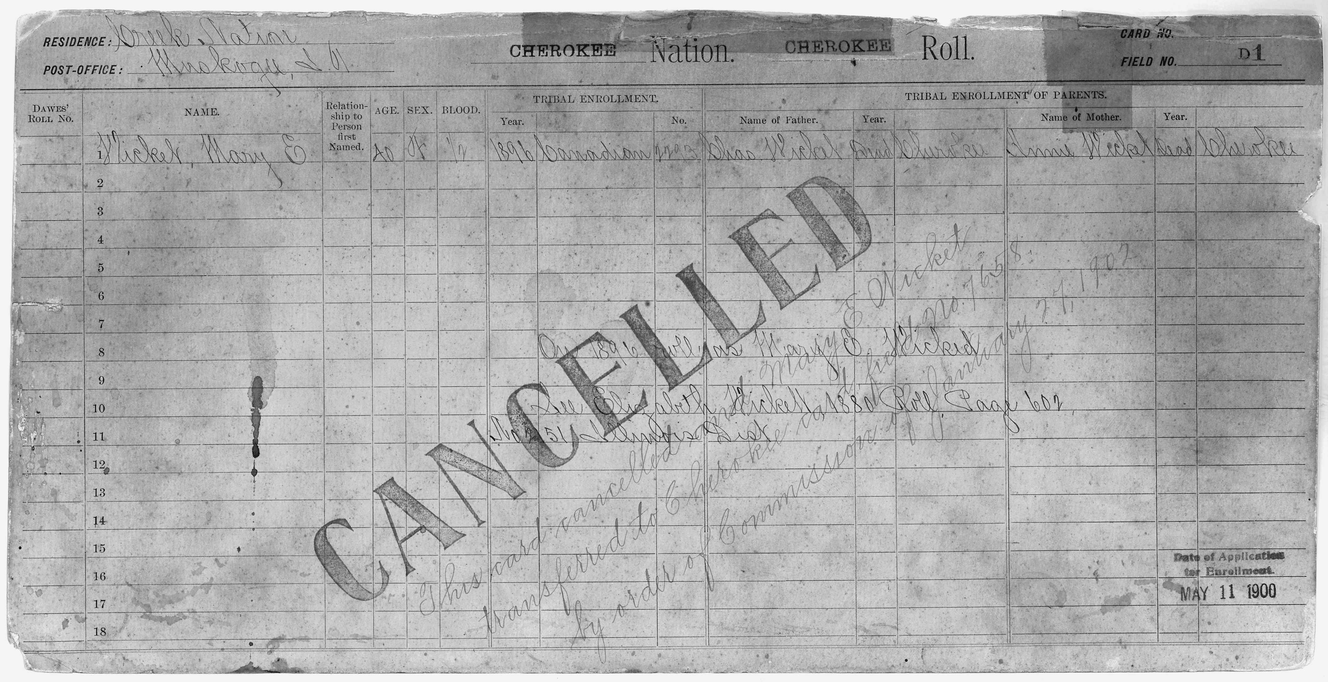 Scope and content: Name: Annie Wicket Type: Parent Sex: Female Name: Charles Wicket Type: Parent Sex: Male Name: Mary E Wicket Type: Doubtful Age: 40 Sex: Female Degree Indian Blood: 1/2 City of Residence: Muskogee